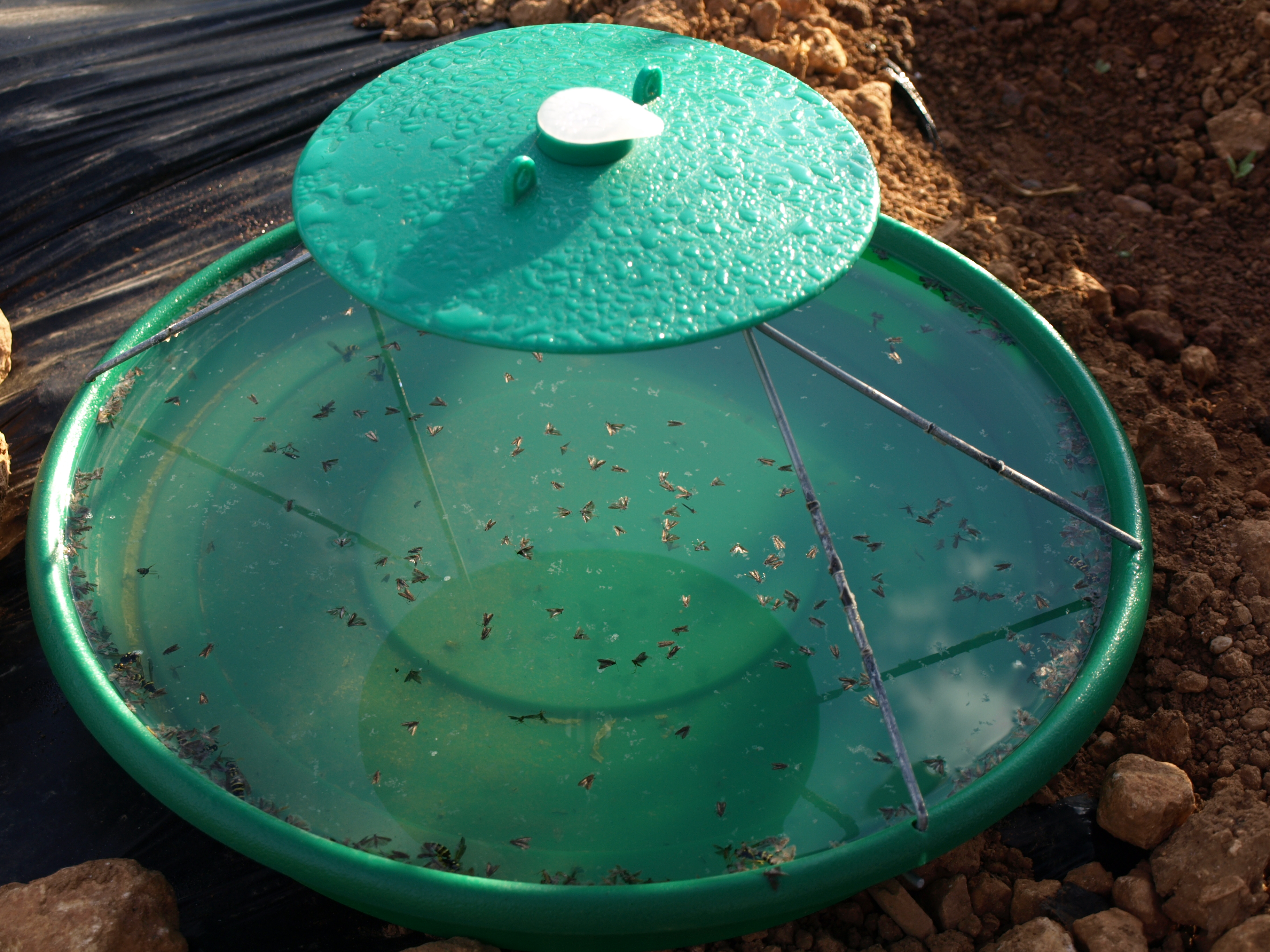 Water synthetic sex pheromones tramp for the Tuta absoluta Povolny Place Lloc/Place: Pla de Sant Jordi Palma